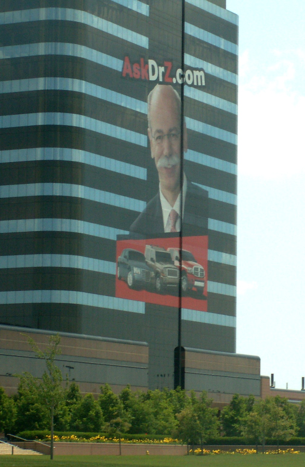 Dieter Zetsche as Dr.Z. on the front of the Chrysler building in Auburn Hills